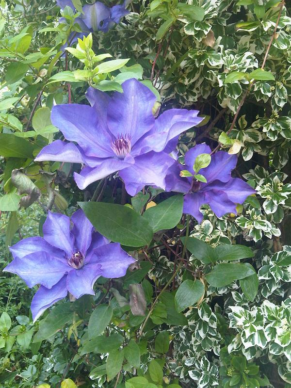 Cultivated Clematis 'The President' flowers in London, England.